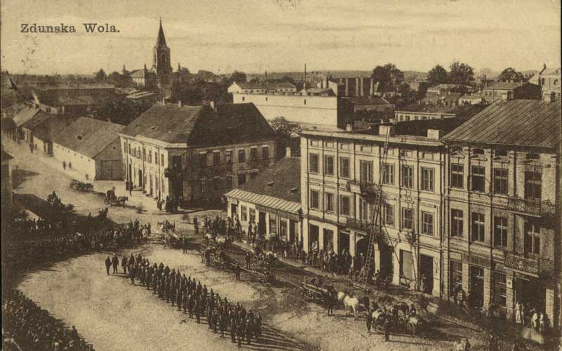 Plac Wolnosci in Zdunska Wola in early 20th century